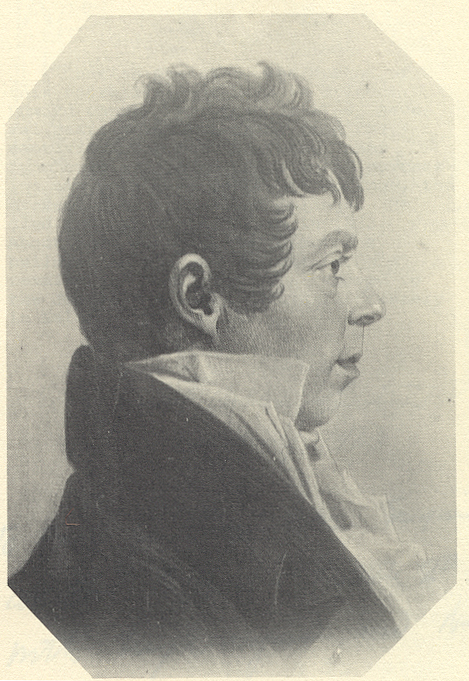 Image of Charles Johnston, Indian captive